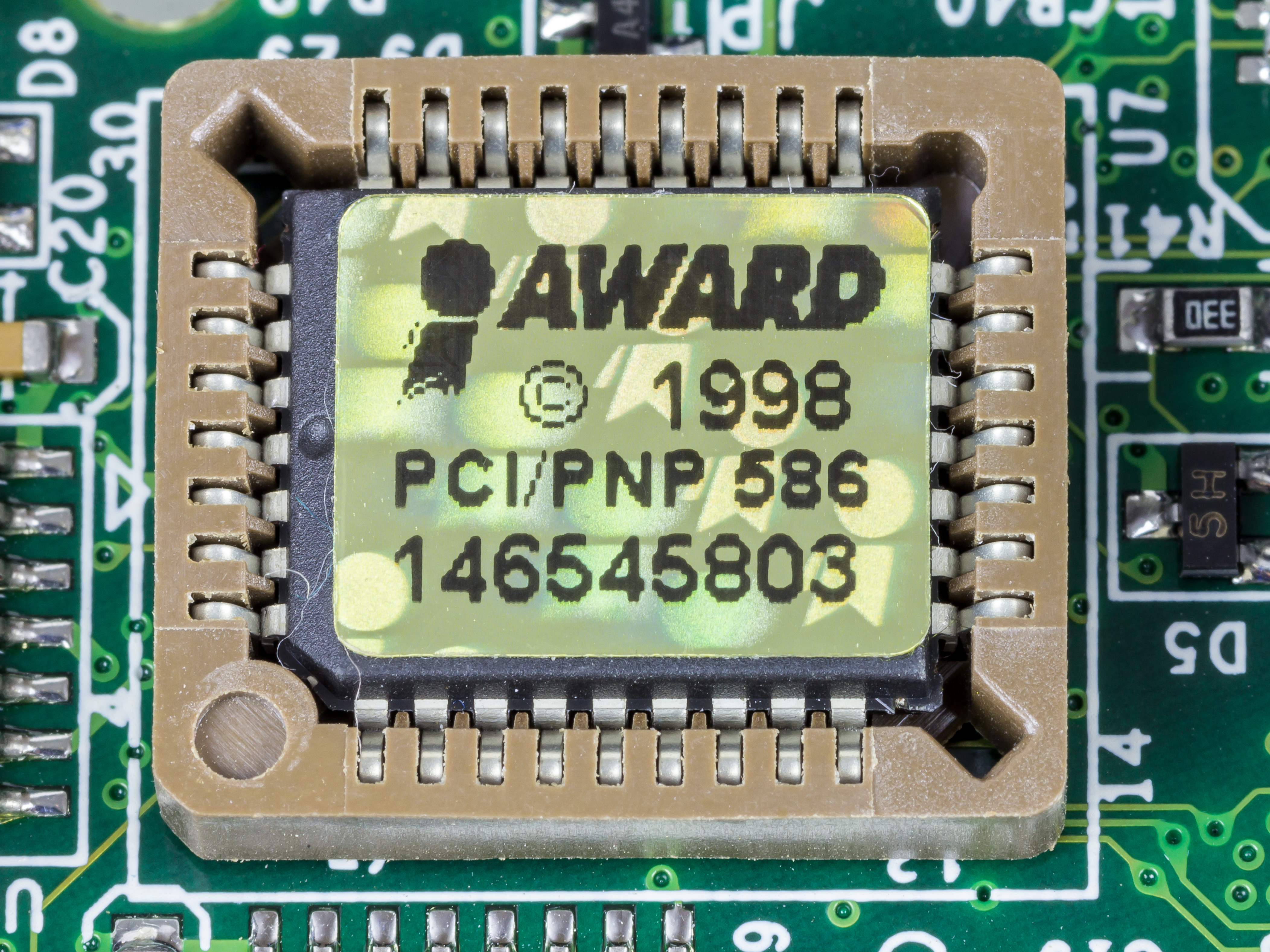 ROCKY-518HV - Atmel AT29C010A (PLCC form) with Award BIOS